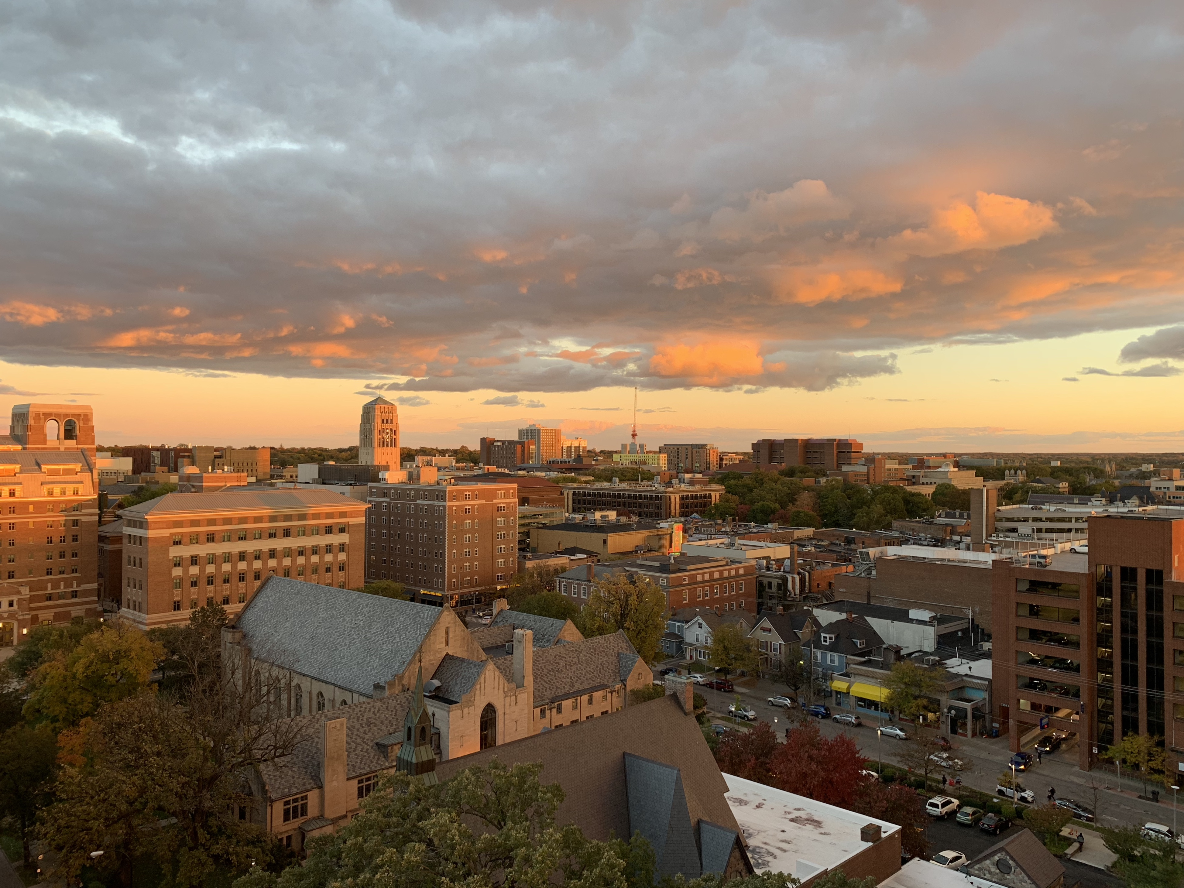 Downtown Ann Arbor as seen from E Huron St